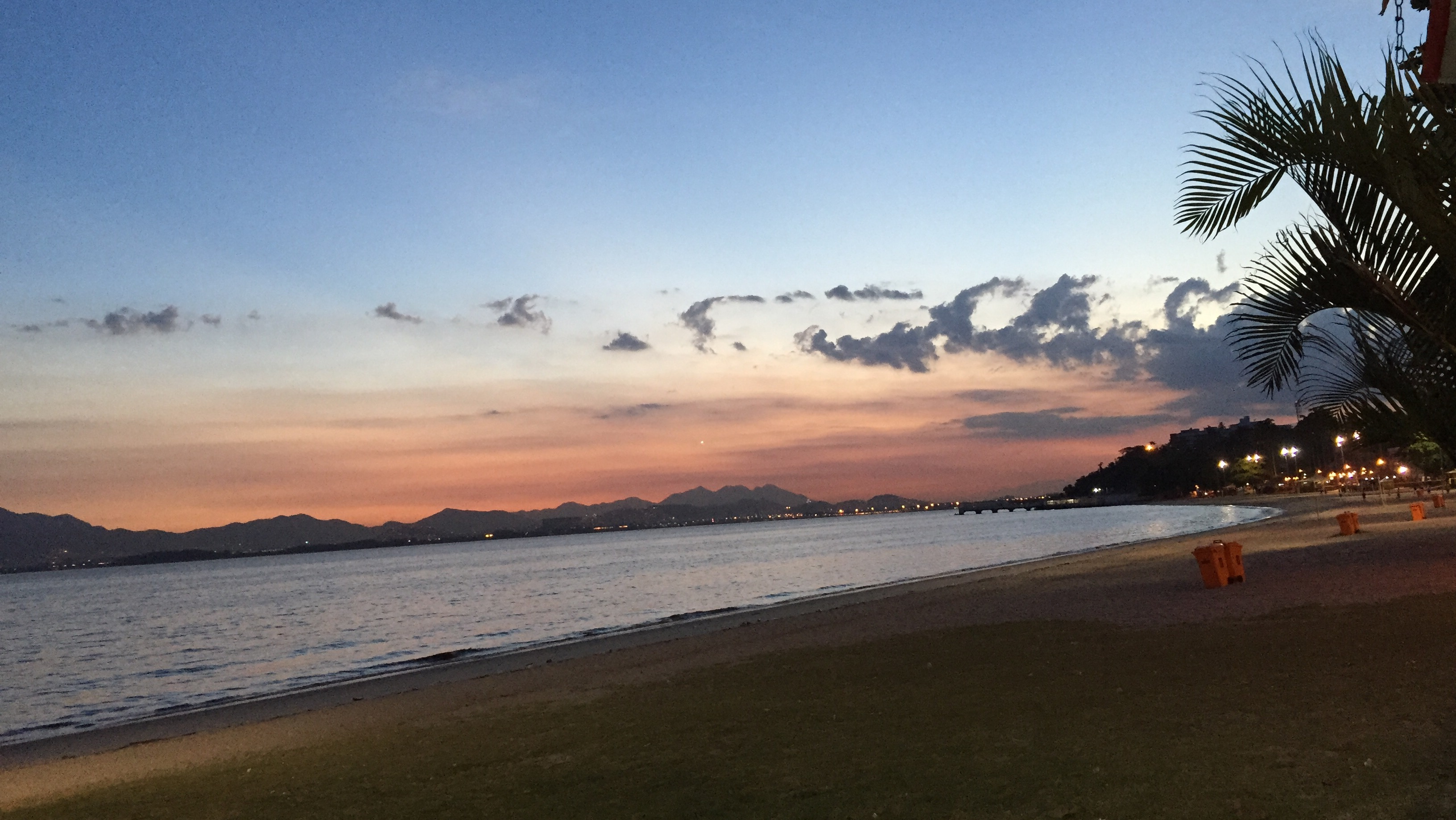 Bica Beach, Jardim Guanabara, Rio de Janeiro, Brazil.